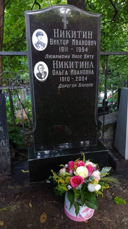 Gravestone of Victor Ivanovich Nikitin (1911-1994), soloist of the Alexandrov Ensemble and the first Mr Kalinka. It is located at Pyatnitskoye cemetery in Moscow, on the Pyatnitskoye Highway.